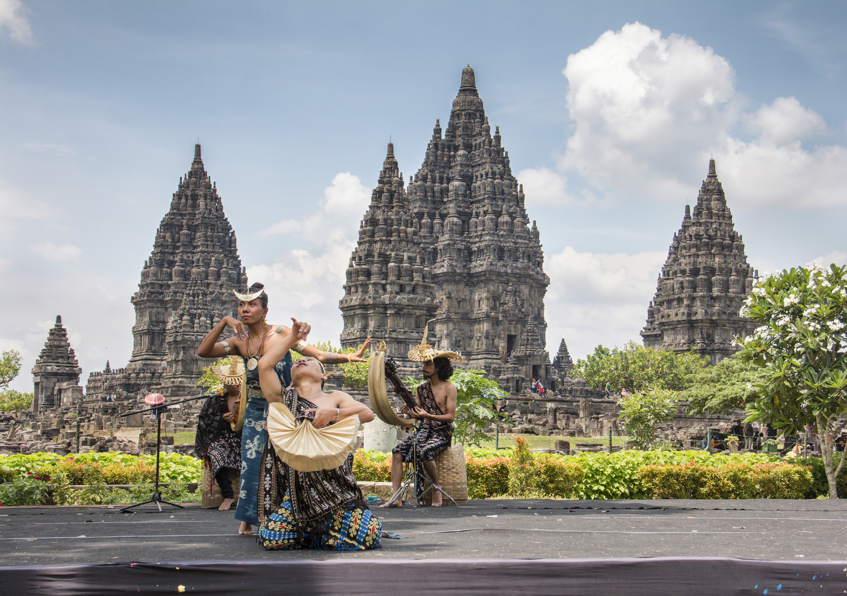 Lontara dance during Gunungan Festival at Prambanan Temple.